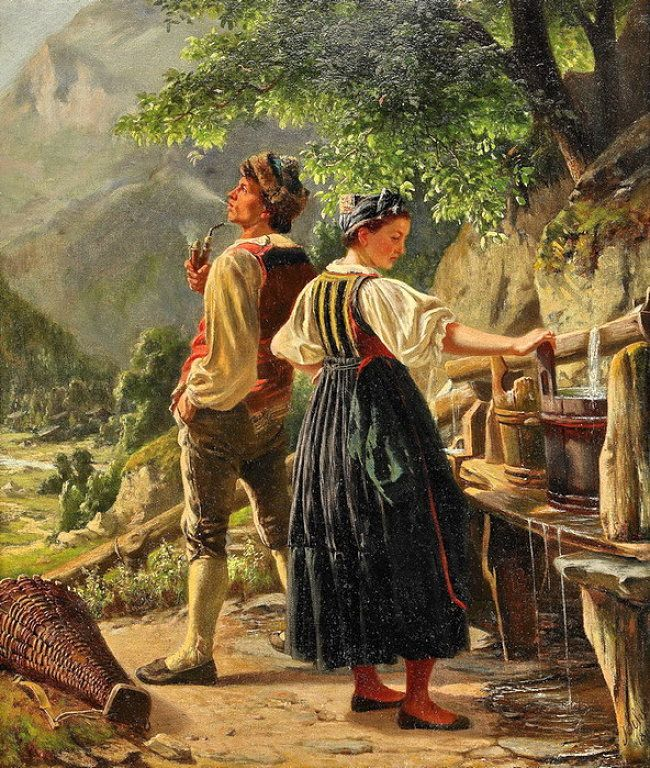 The Lovers Quarrel